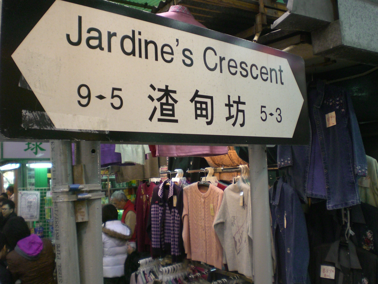 渣甸坊, Jardine's Crescent, Causeway Bay, Hong Kong